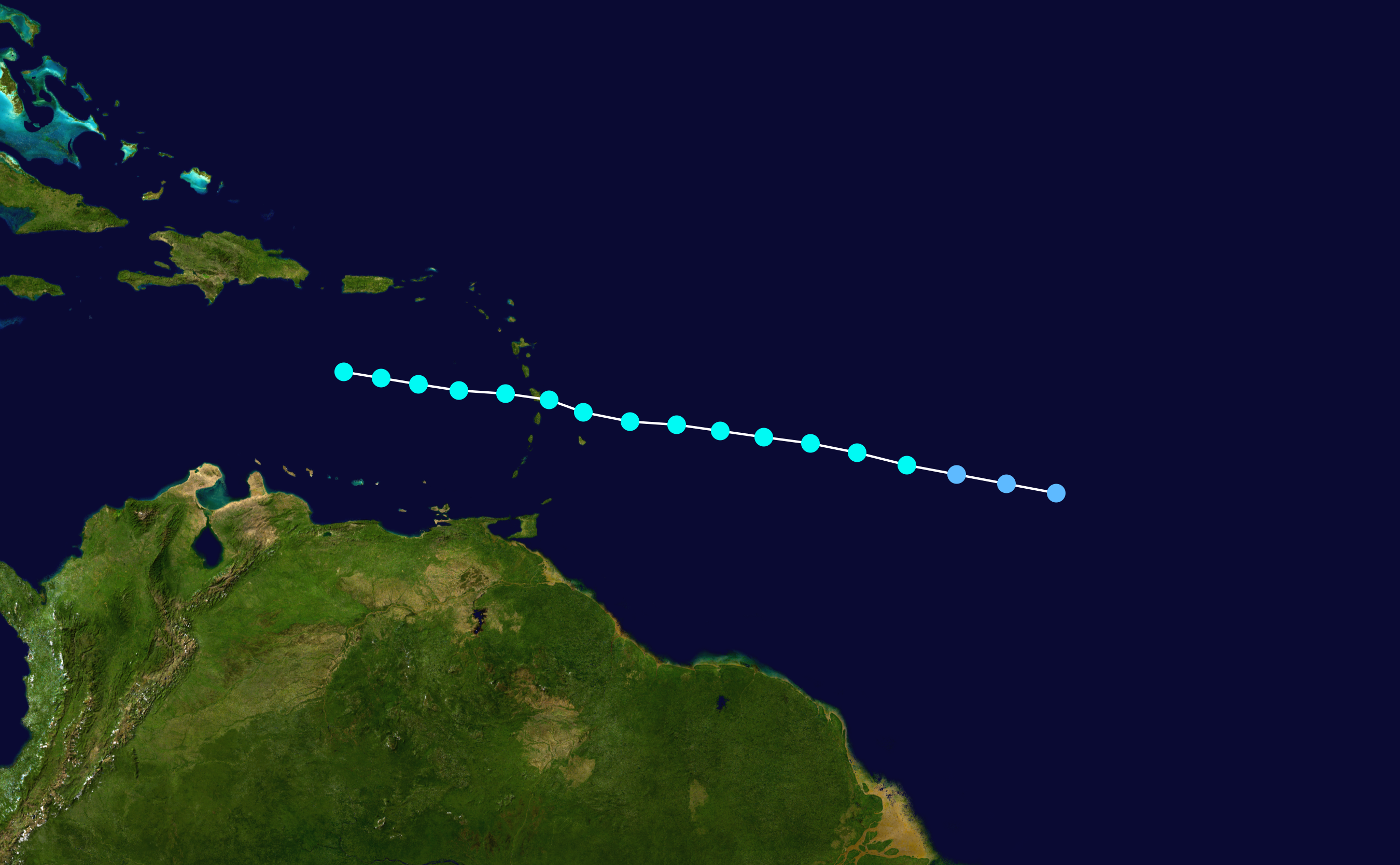 Tropical Storm Dorothy (1970) track. Uses the color scheme from the Saffir-Simpson Hurricane Scale.